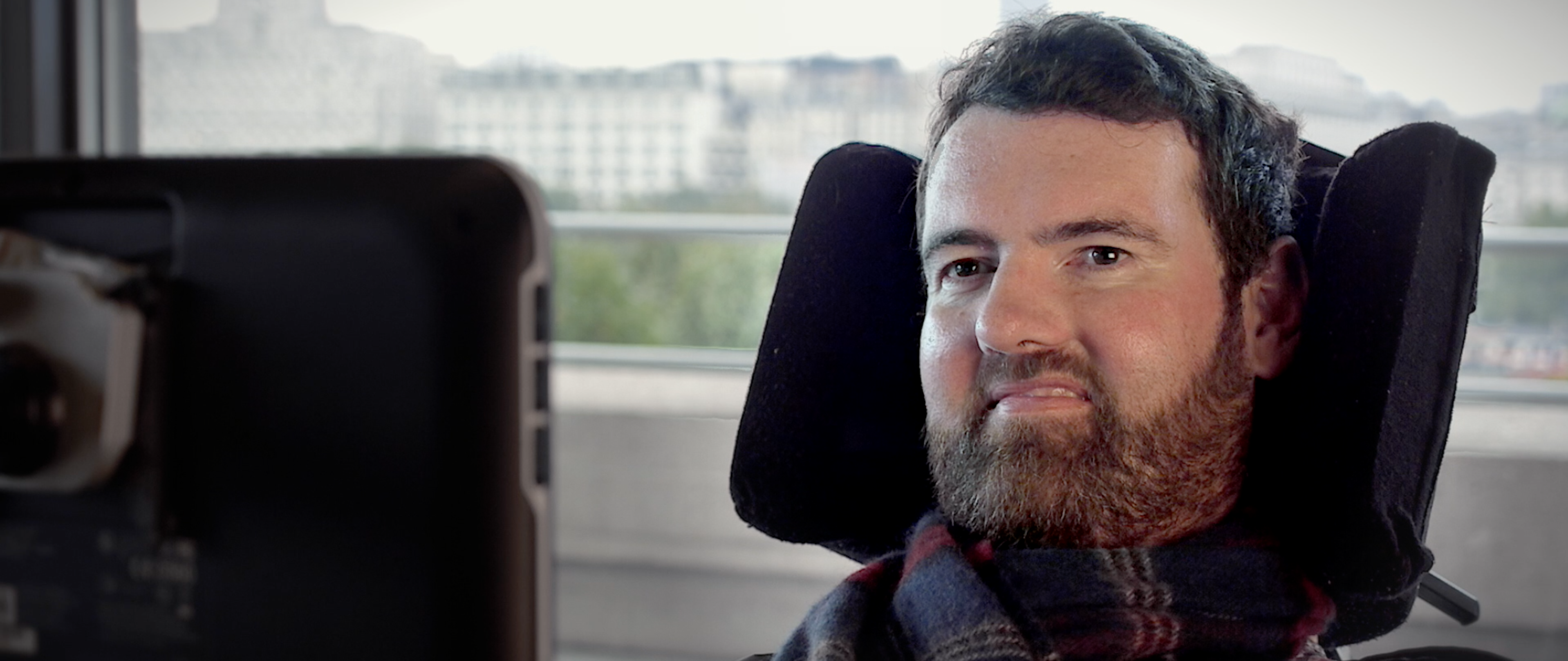 Euan MacDonald MBE, co-founder of Euan's Guide, the disabled access review website and app.